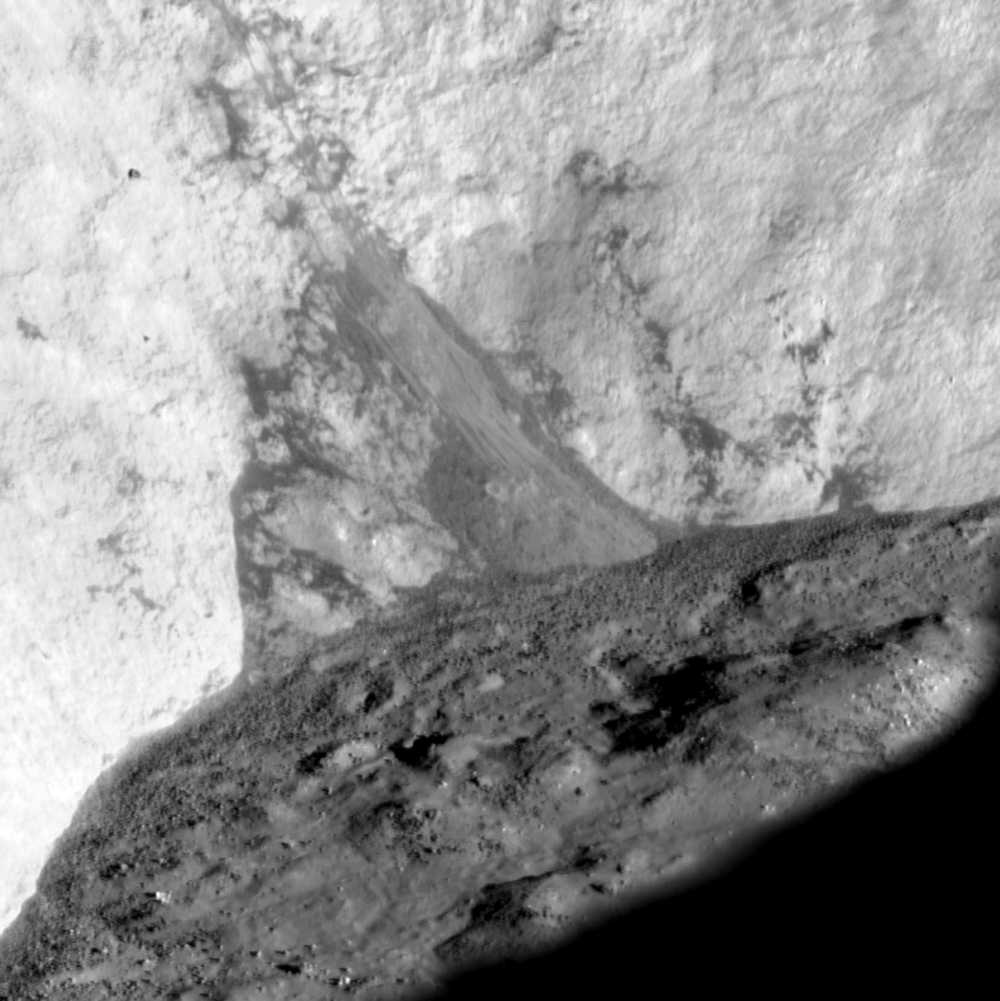 LROC NAC image (M1131216329LR) of the southeast wall of Dugan J, where material flowed downward and came to rest at the base of the crater wall. Image is ~2 km wide [NASA/GSFC/Arizona State University].